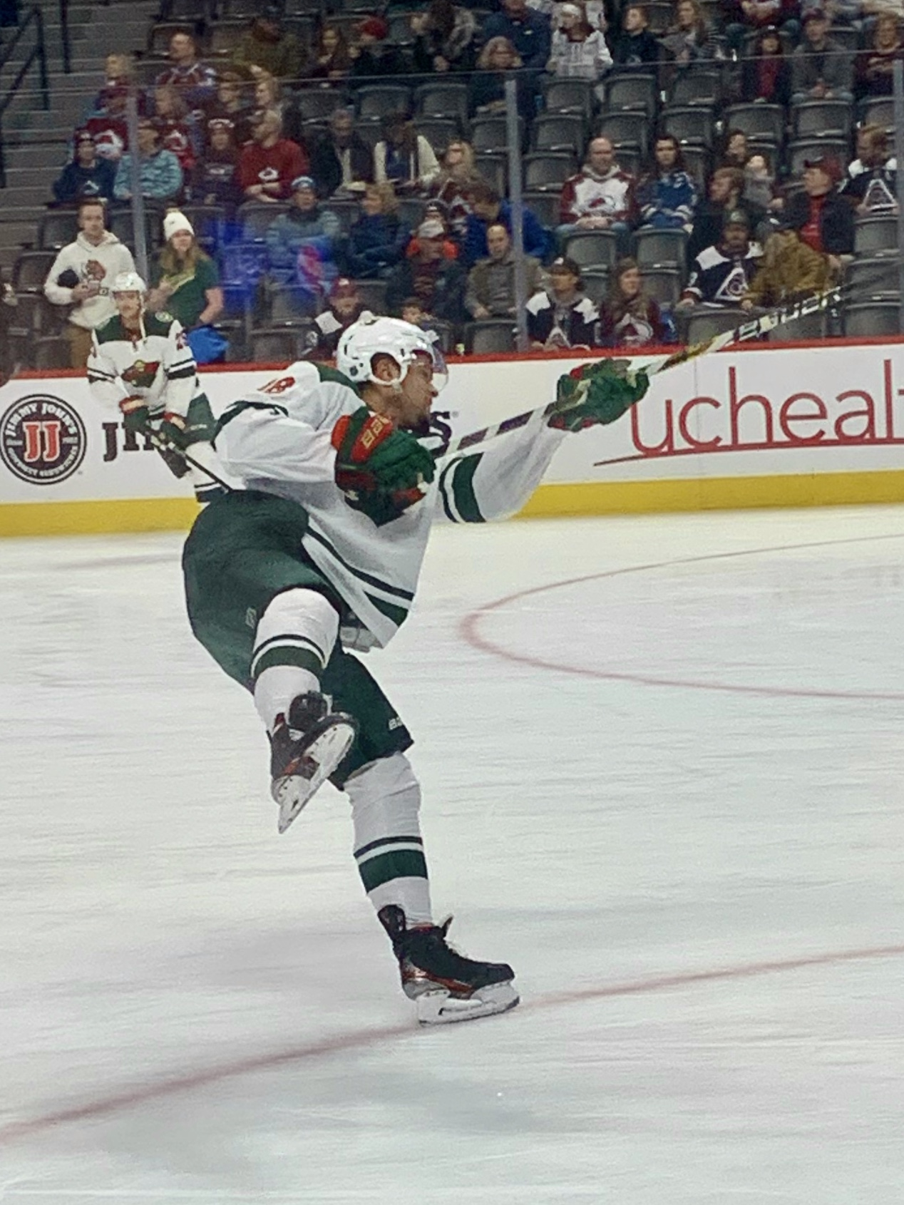 Jordan greenway shooting